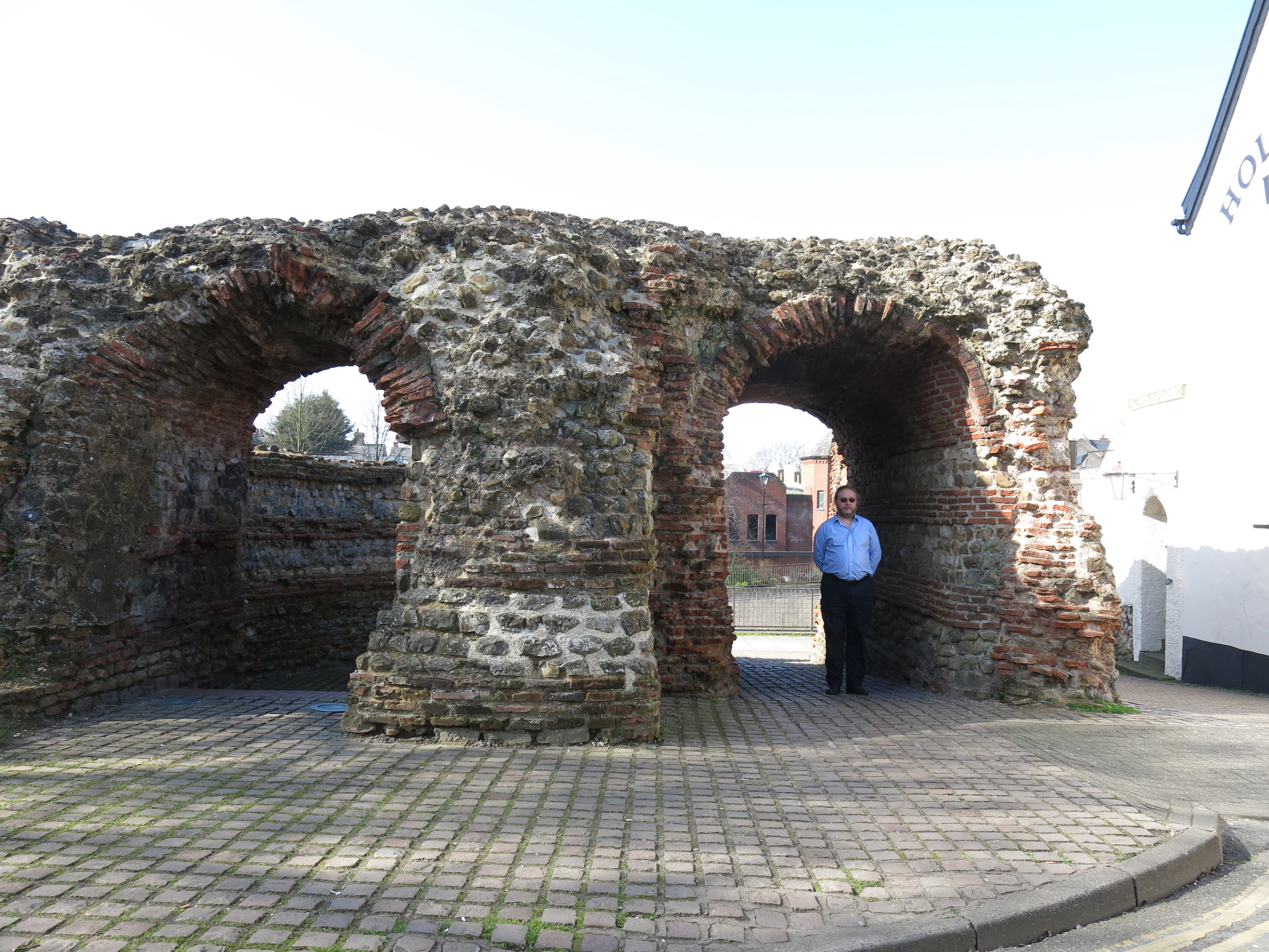 The Balkerne Gate, Colchester, with man in for scale. Taken 9/3/14.